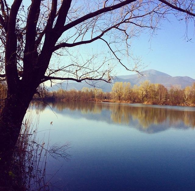 Torbiere near Iseo